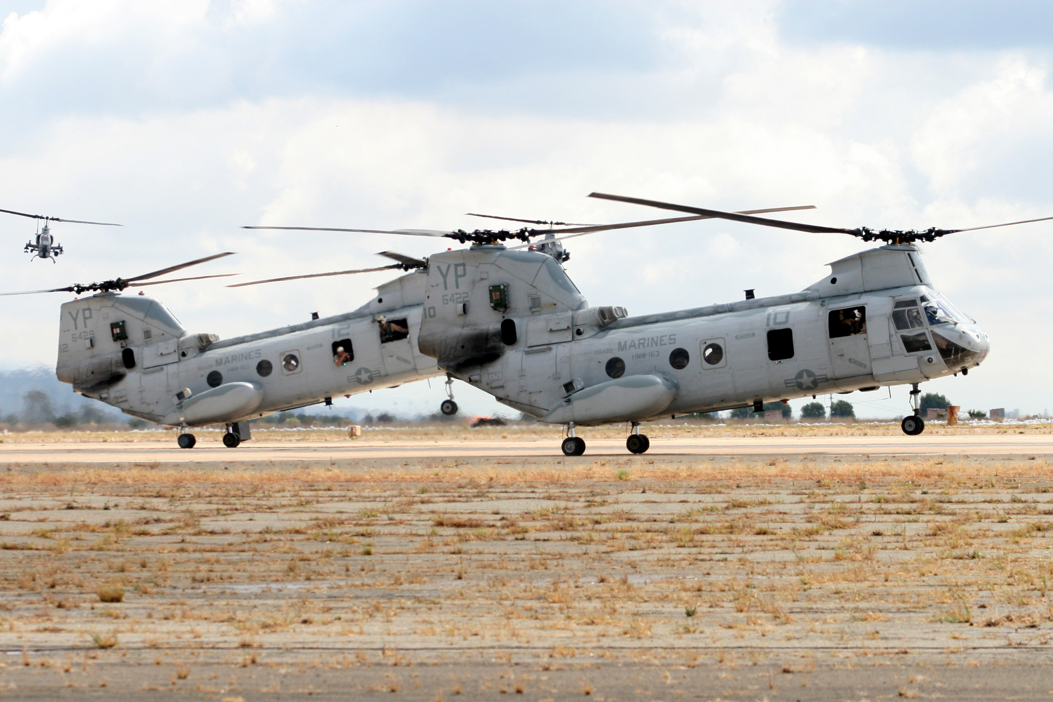 San Diego (Oct. 14, 2006) – Two CH-46 Sea Knights land on the flight line of Marine Corps Air Station (MCAS) Miramar during a demonstration of how a Marine Air-Ground Task Force responds when called upon during the Miramar Air show. The Miramar Air Show is celebrating its 50th Anniversary and is part of the San Diego Fleet Week, a month long celebration of southern California’s Navy and Marine Corps personnel. U.S. Marine Corps photo by Lance Cpl. Kelly R. Chase (RELEASED)